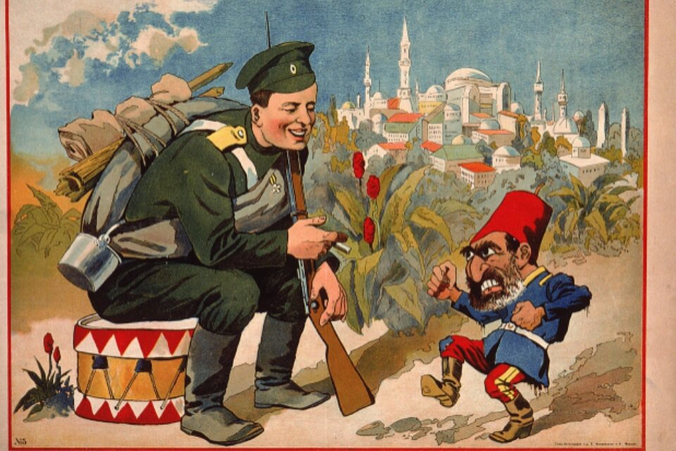 1915 russian WWI poster showing a russian soldier having fun to see a little angry turkish soldier